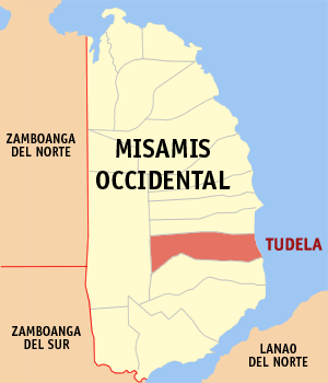 Map of the Misamis Occidental showing the location of Tudela